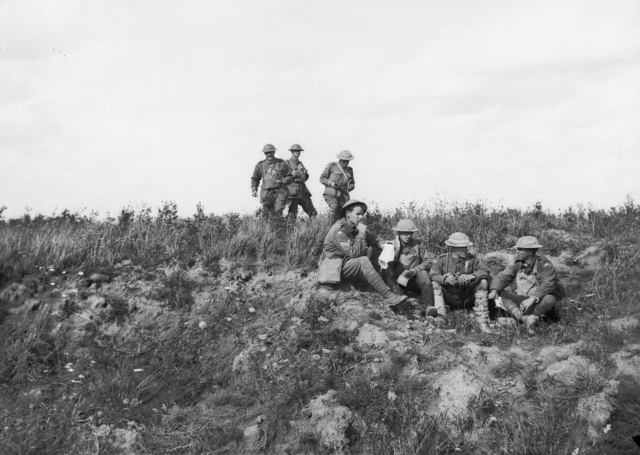 Soldiers from the 48th Battalion, AIF, 4th Australian Division, at Le Verguier, France, 17 September 1918. The following day they would undertake the battalion's final attack of the war against the Hindenburg Line.